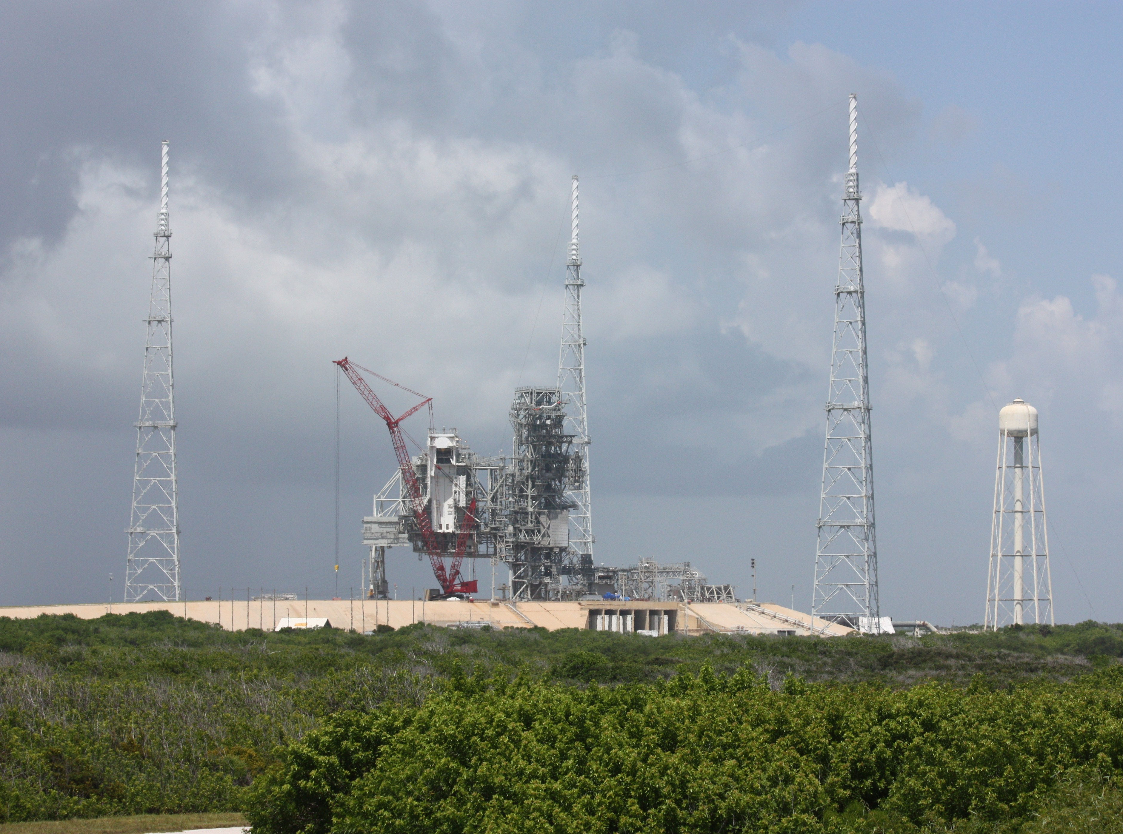 Launchpad 39B at the Kennedy Space Centre, Florida, undergoing conversion work to support NASA's new series of Ares rockets.